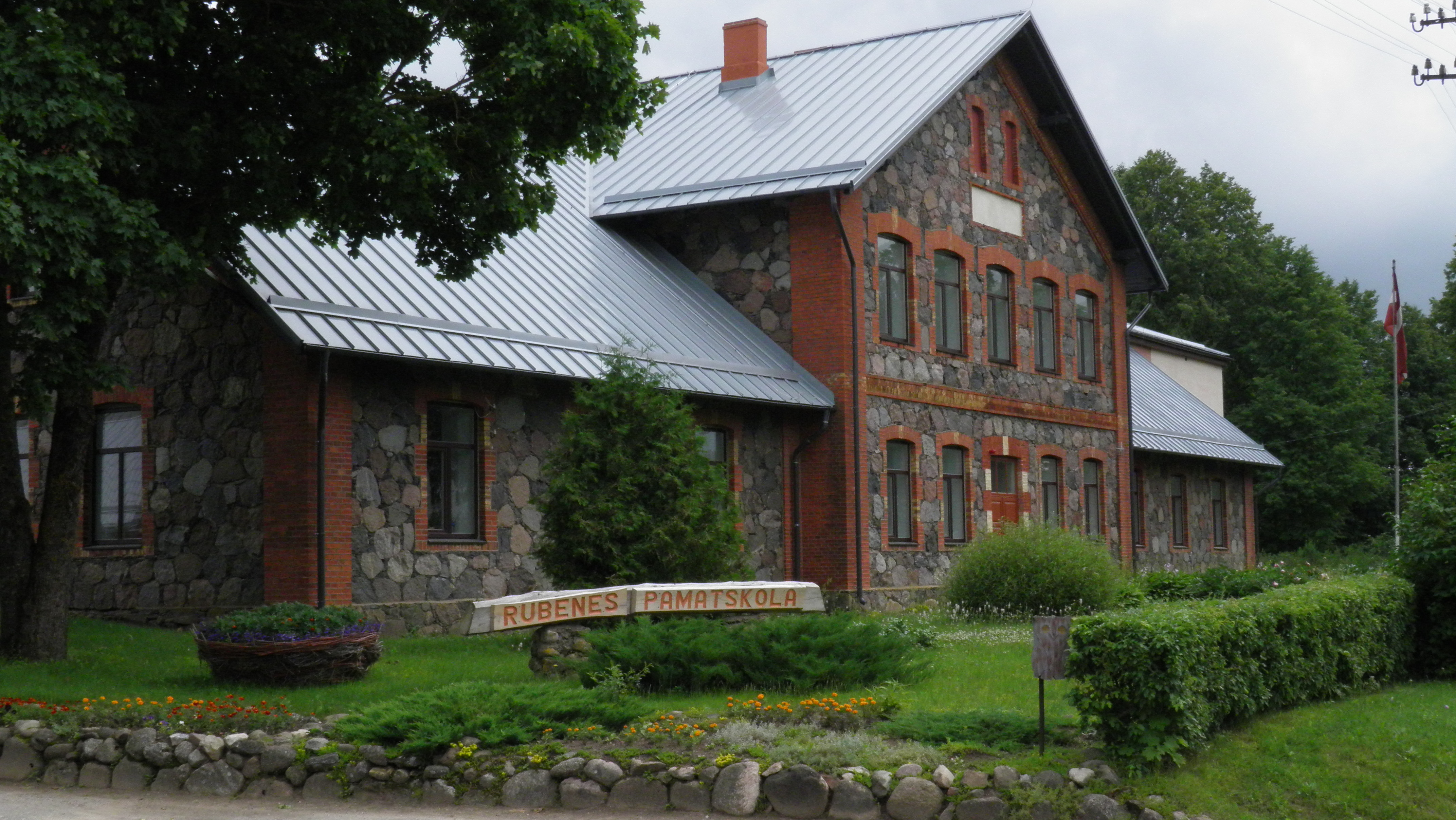 school